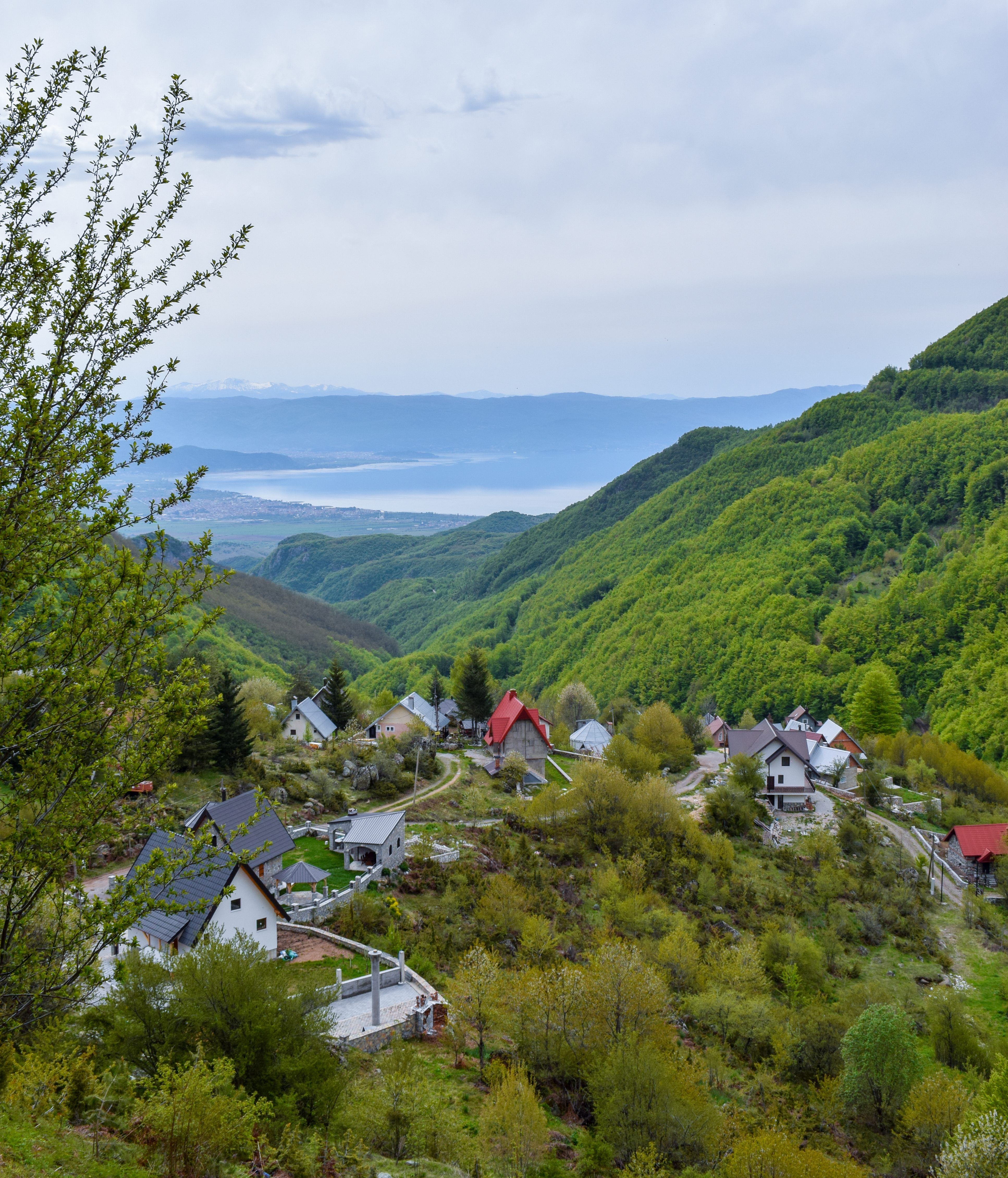 View of Upper Belica, Struga and Ohrid Lake in background.